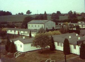 Brinsford Lodge. West Wing, R Block and the gymnasium. Taken 1974 from the water tower, by Richard Elliott